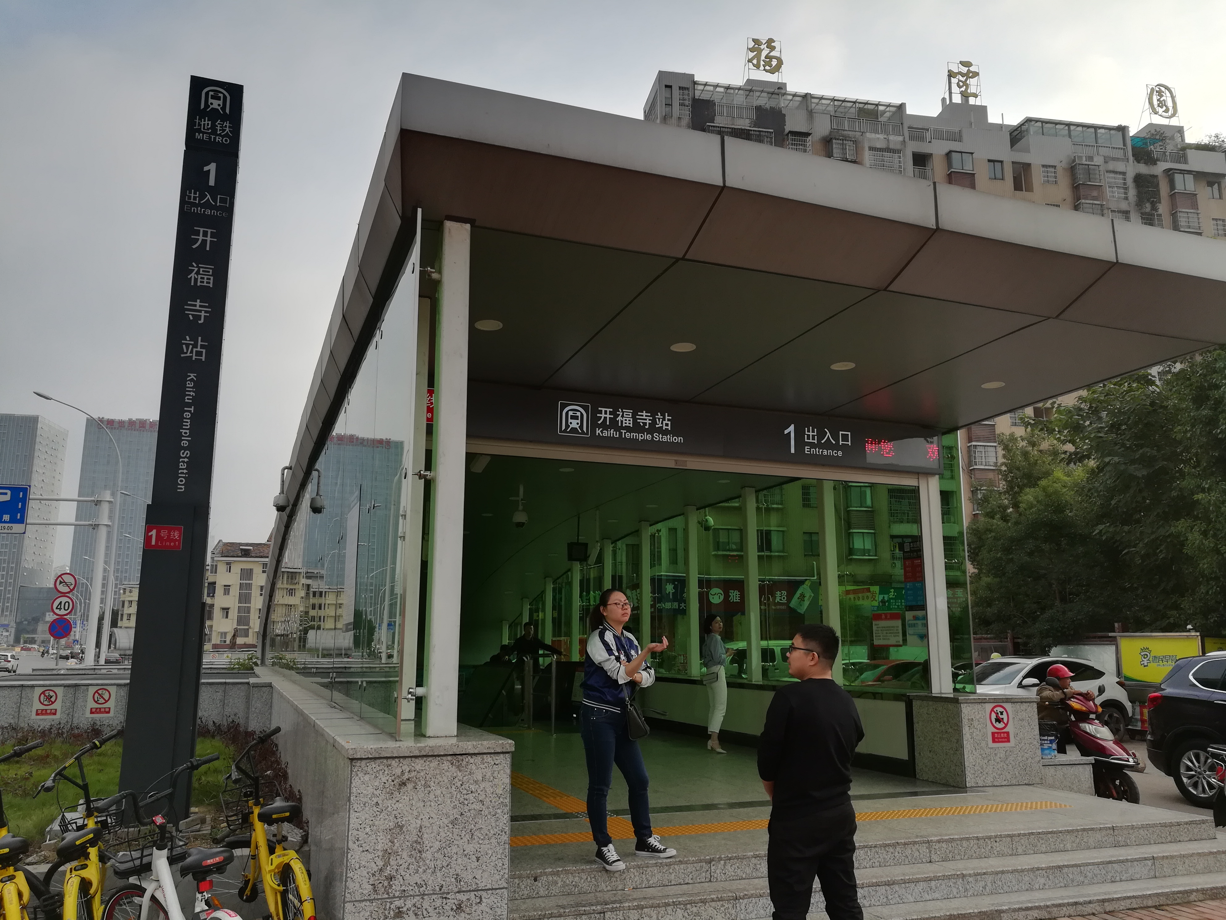 Entrance No. 1 of Kaifu Temple Station.